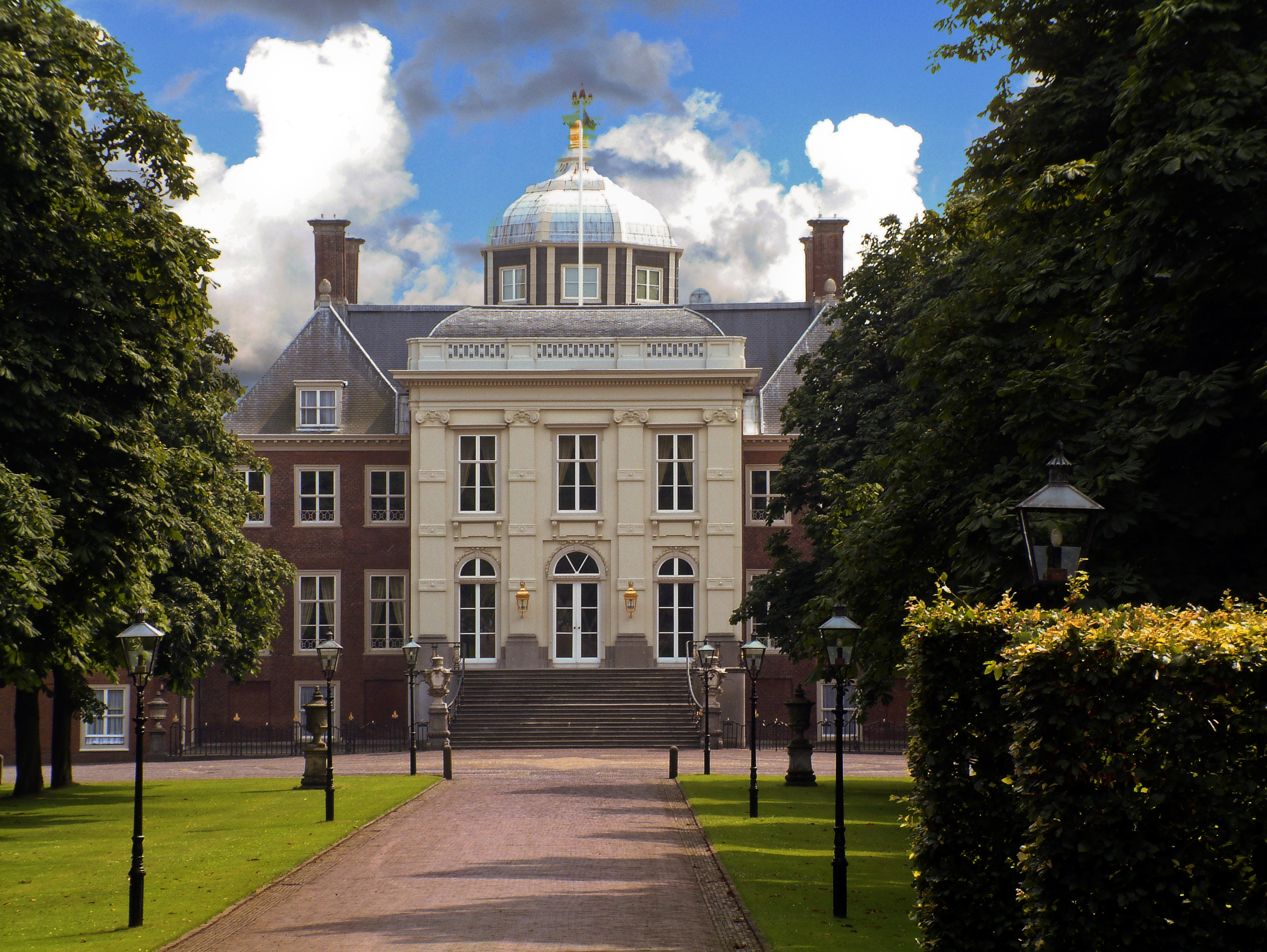 Location The Hague, Netherlands Address Haagse Bos 10 Current tenants Queen Beatrix Construction started 2 September 1645